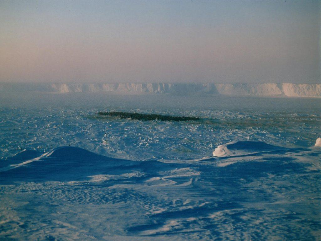 Halley Emperor Penguin colony before the 2016 collapse